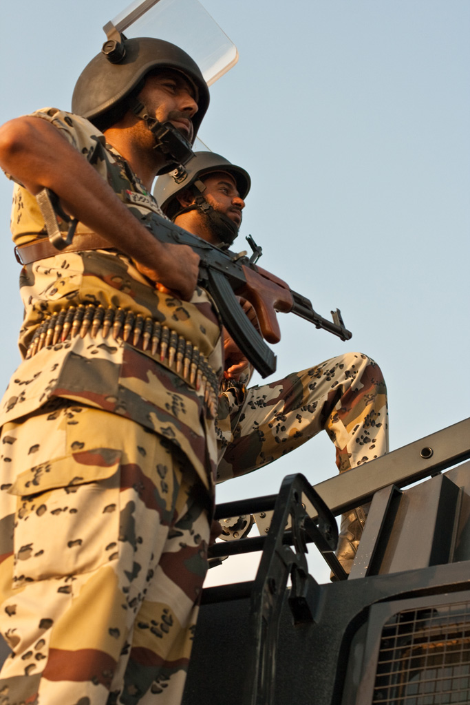 Photo by Omar Chatriwala